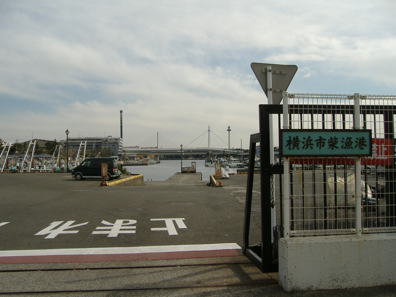 Shiba gyokou-port (Yokohama, Japan)